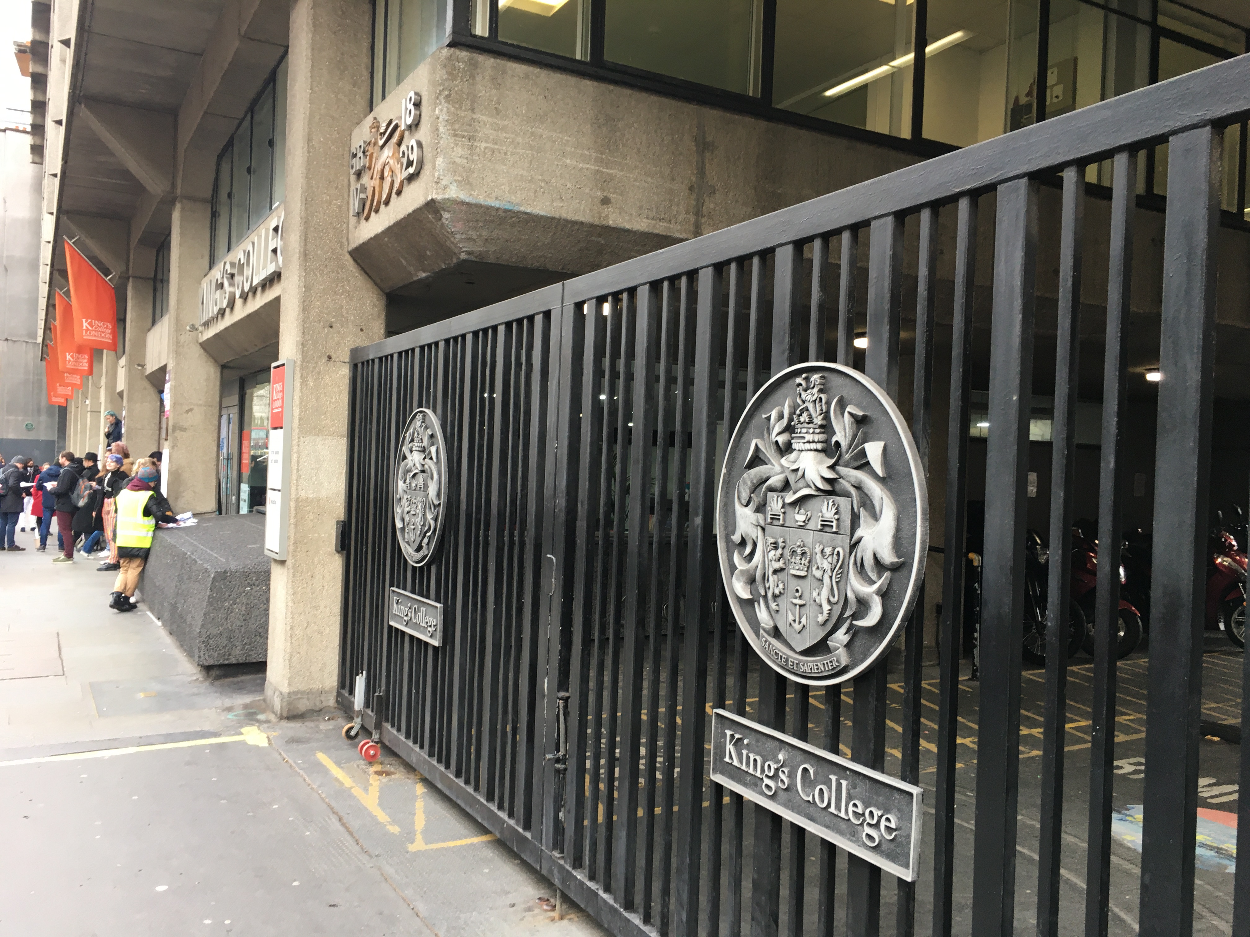 Looking northeastward along the Strand in March 2020, the coat of arms of King's College London on its entrance gate, followed by the college entrance in the Strand Building. A small teach-out is being held near the entrance, with a speaker standing on part of the building, as part of the University and College Union's industrial action against a number of UK universities.